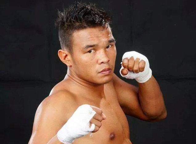 Tun Tun Min at press conference in Yangon